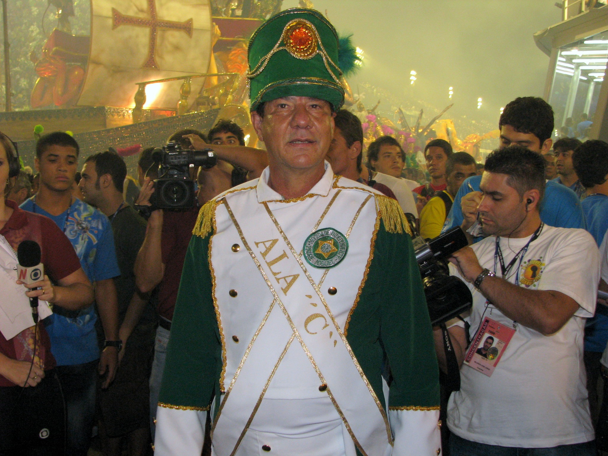 Joel Santana during Mocidade Independente de Padre Miguel Samba School Show at 2008 Rio de Janeiro Carnival.